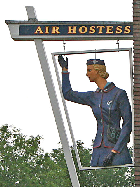 Pub sign in Tollerton. A figure-head type sign made of glass fibre for the Air Hostess pub, complete with 1960s uniform and hair style. The Air Hostess first opened in December 1966 when two real air hostesses were flown up from Birmingham Airport to add a touch of glamour to the occasion. The pub's female bar staff used to wear air hostess uniforms and it still retains the original 60s style.